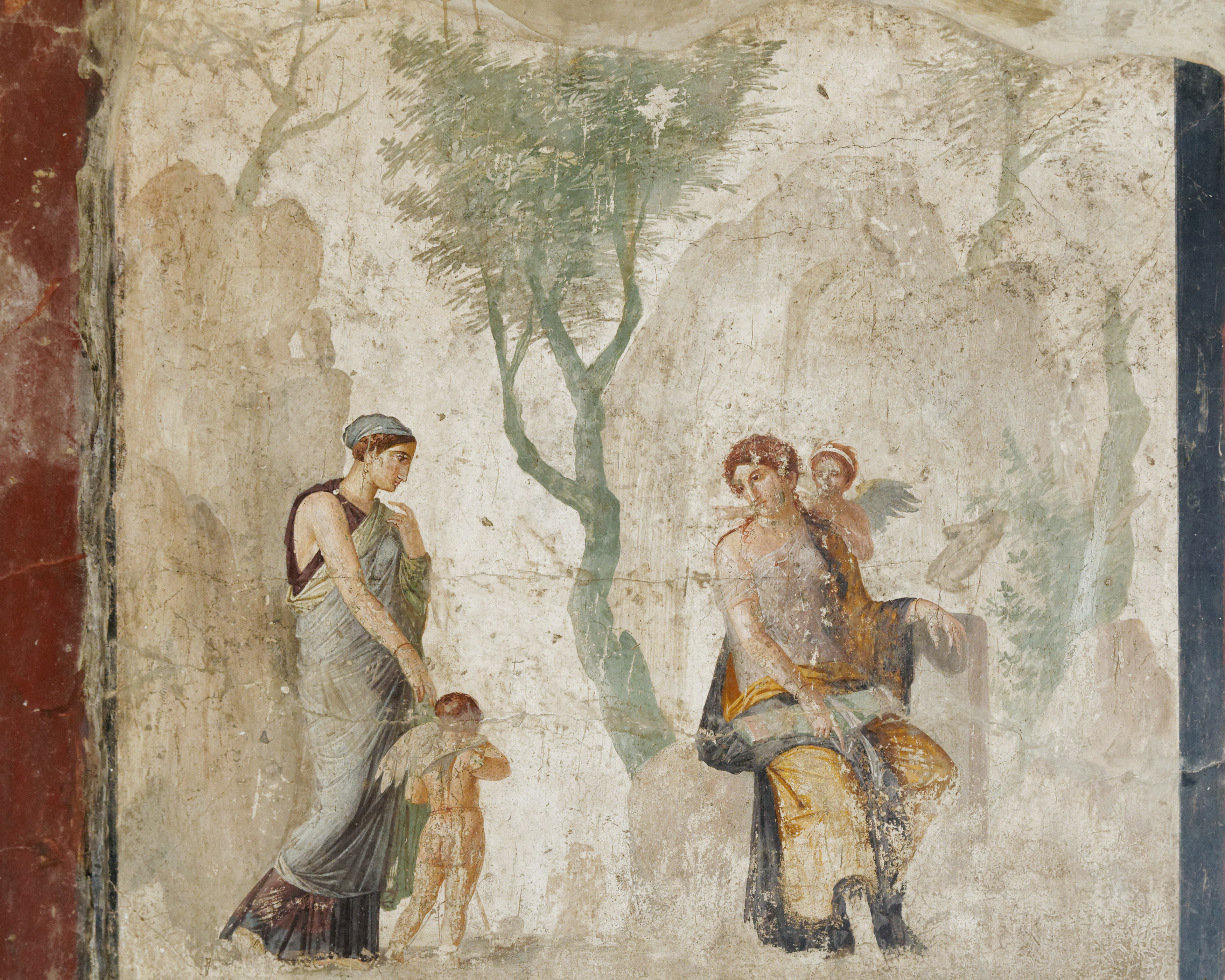 Eros brought by Peitho (Persuasion) to Venus as Anteros laughs at his being punished for having chosen the wrong target from the tablinum in the House of Punished Love in Pompeii VII, 2, 23